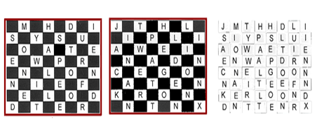 Two steps that create a trans position cipher on a chessboard, created specifically for an article on grille cryptography